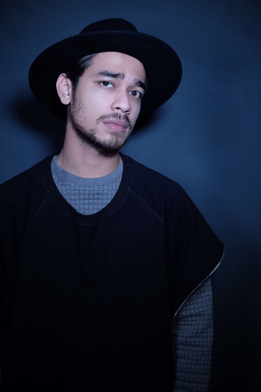 Portrait of Indonesian actor Wafda Saifan 2016